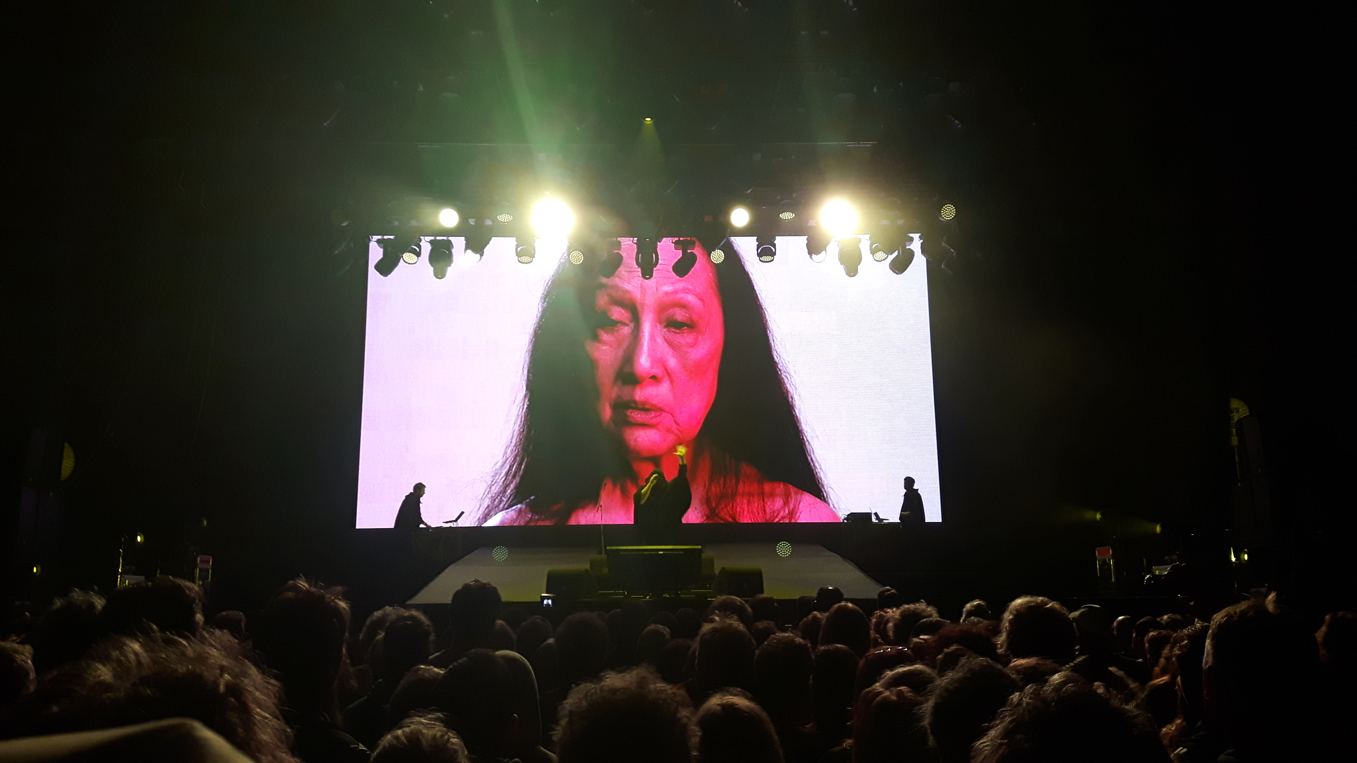 Anohni at Down The Rabbit Hole 2016